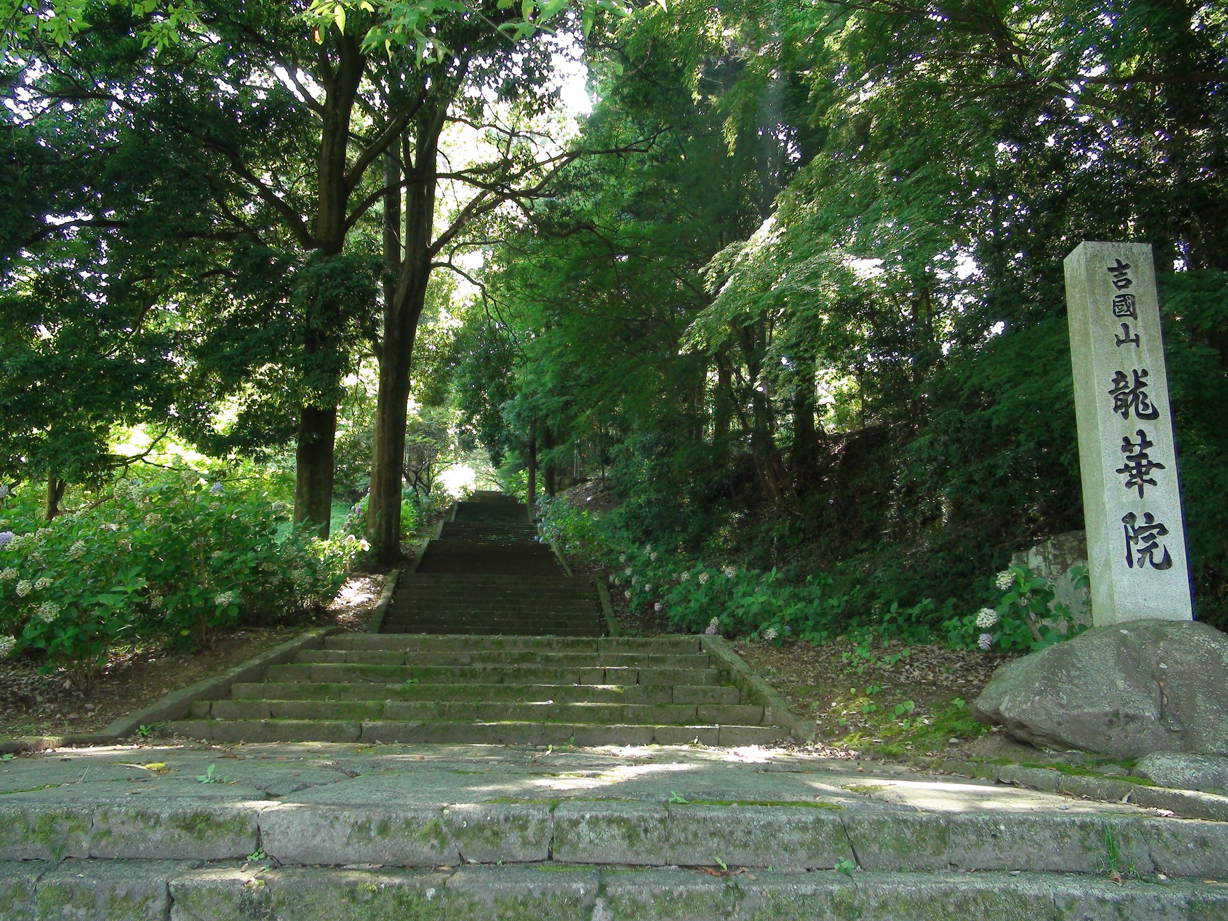 Ryugein Temple old stone stairway